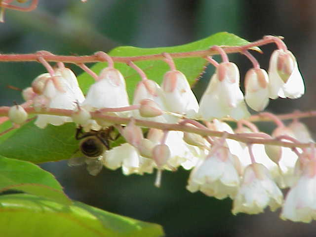 Species: Clethra arborea Family: Clethraceae Image No. 2